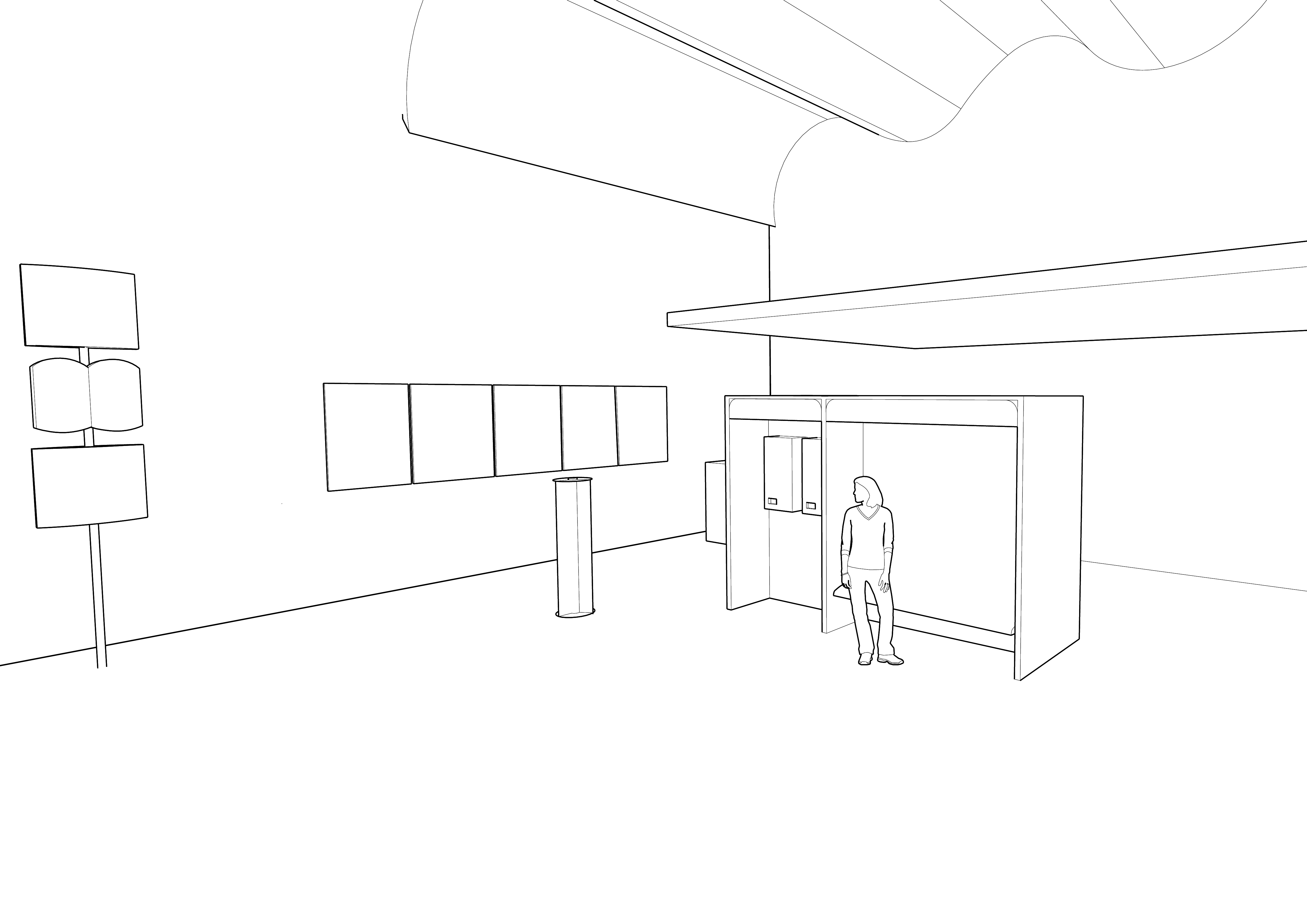 sezione Germania XIV